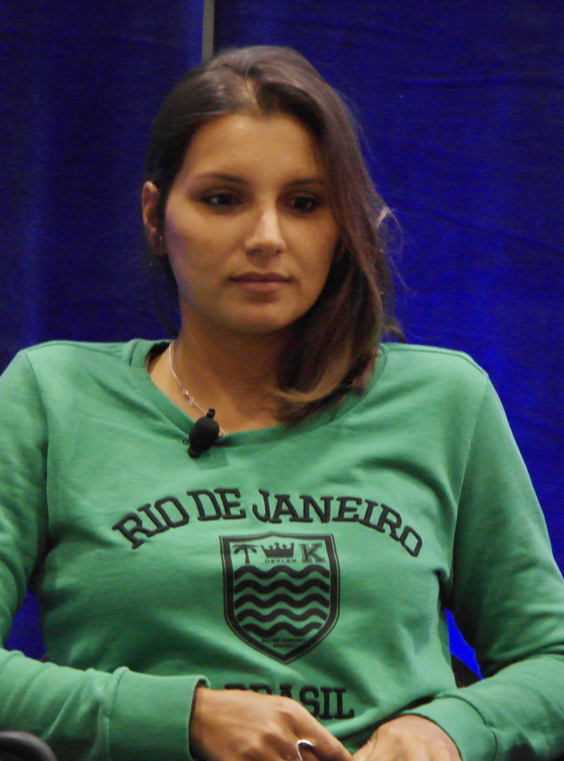 Usa science and engineering festival 2014 at Walter E Convention Center, DC